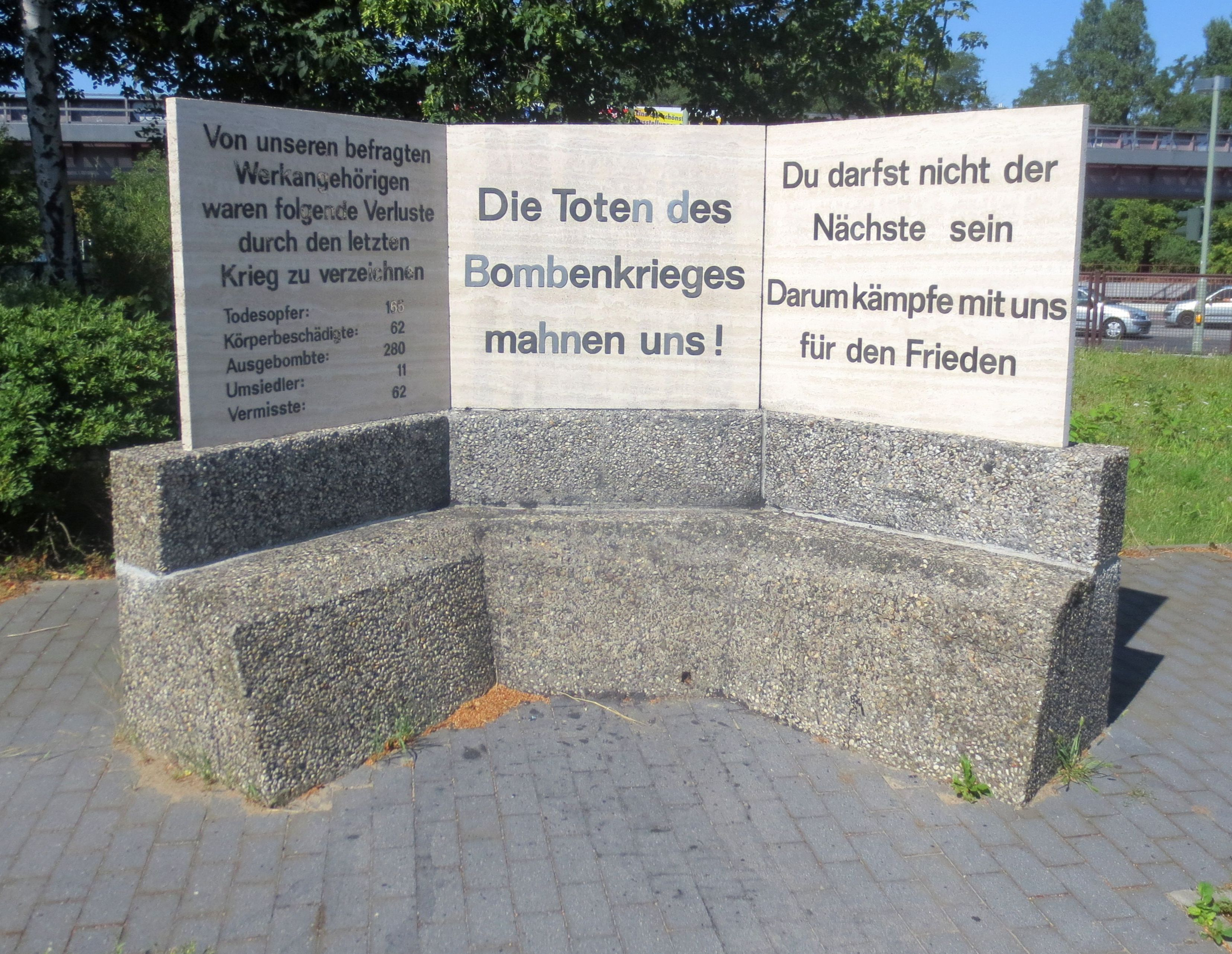 Memorial for the victims of WW II among the employees of the former Reichsbahn Repair Shop Tempelhof on its original site at Sachsendamm No. 47 in Berlin-Schöneberg, now part of the parking area of the IKEA Tempelhof. The memorial and the preserved buildings of the repair shop constitute a complex that has been designated as a cultural heritage monument.